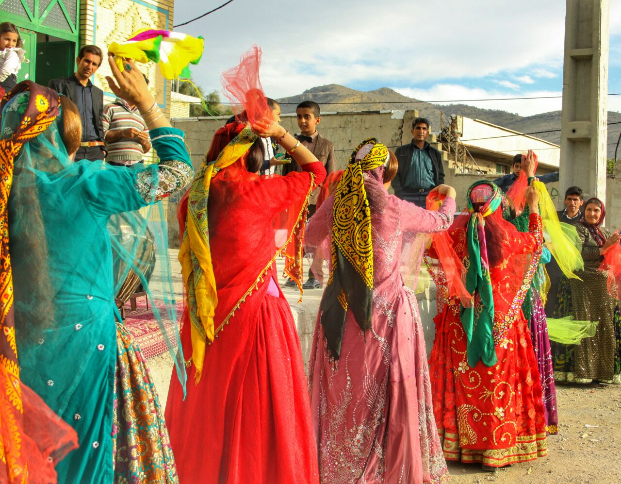 Lurish handkerchief dance, Mamasani, Iran